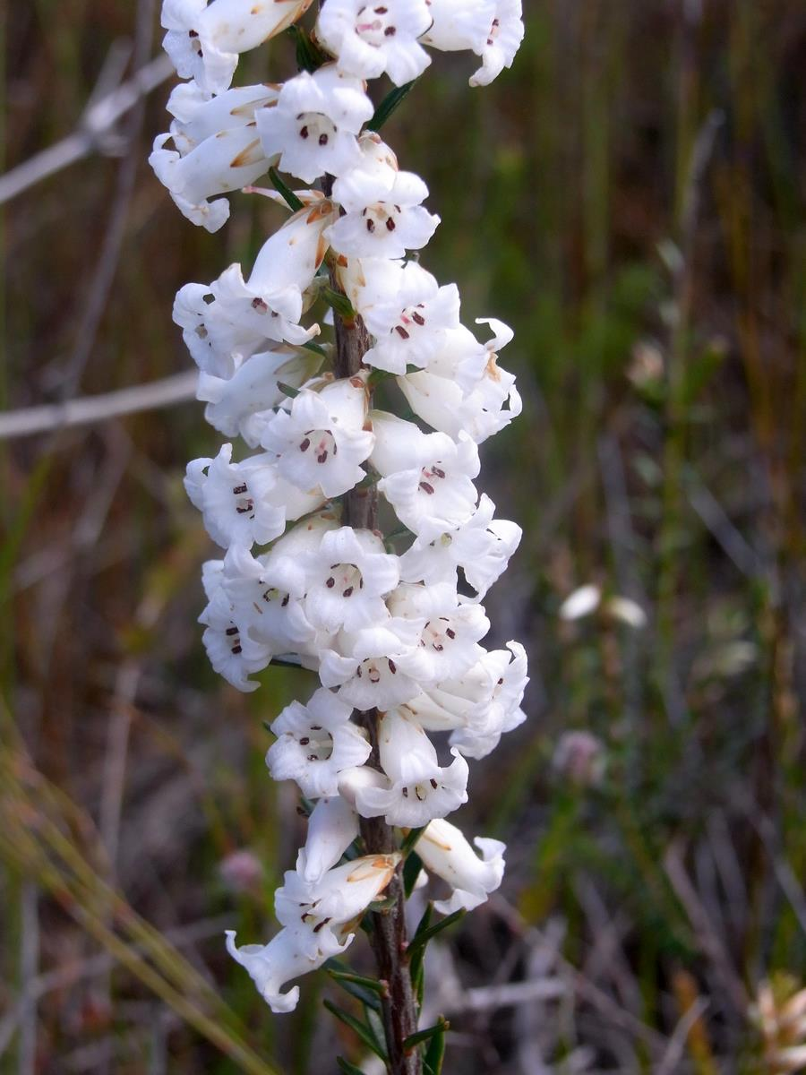 Flowering Heath Elvina Track, Ku-ring-gai Chase National Park, Australia. Epacris obtusifolia